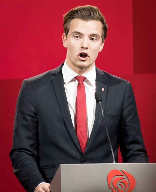 Simon Johnsen during the debate at Norway Labour party's bi-yearly congress in 2017(Arbeiderpartiets landsmøte).